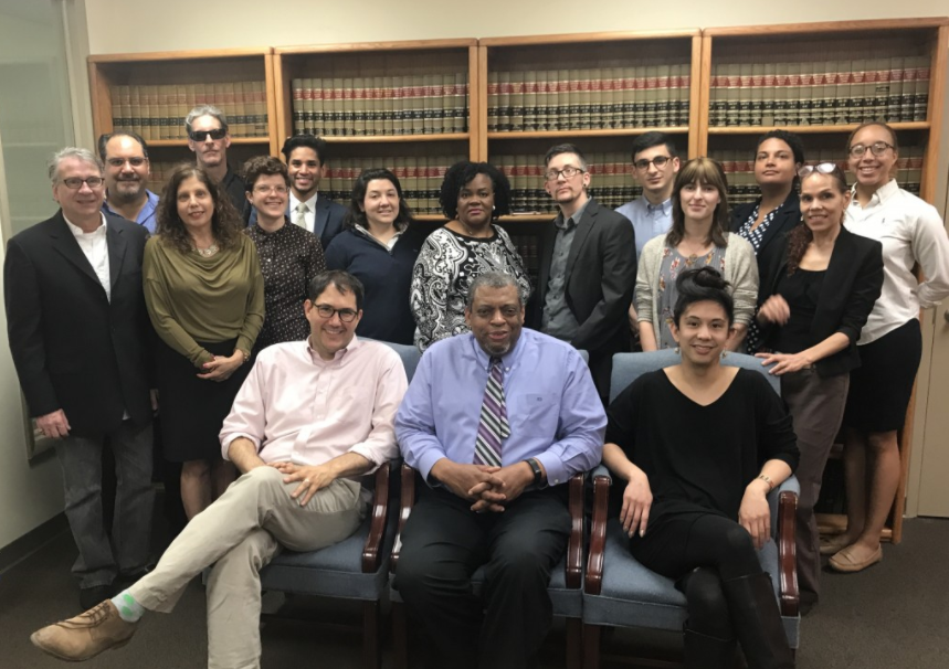 AIDS Law Project Philadelphia Staff Photo